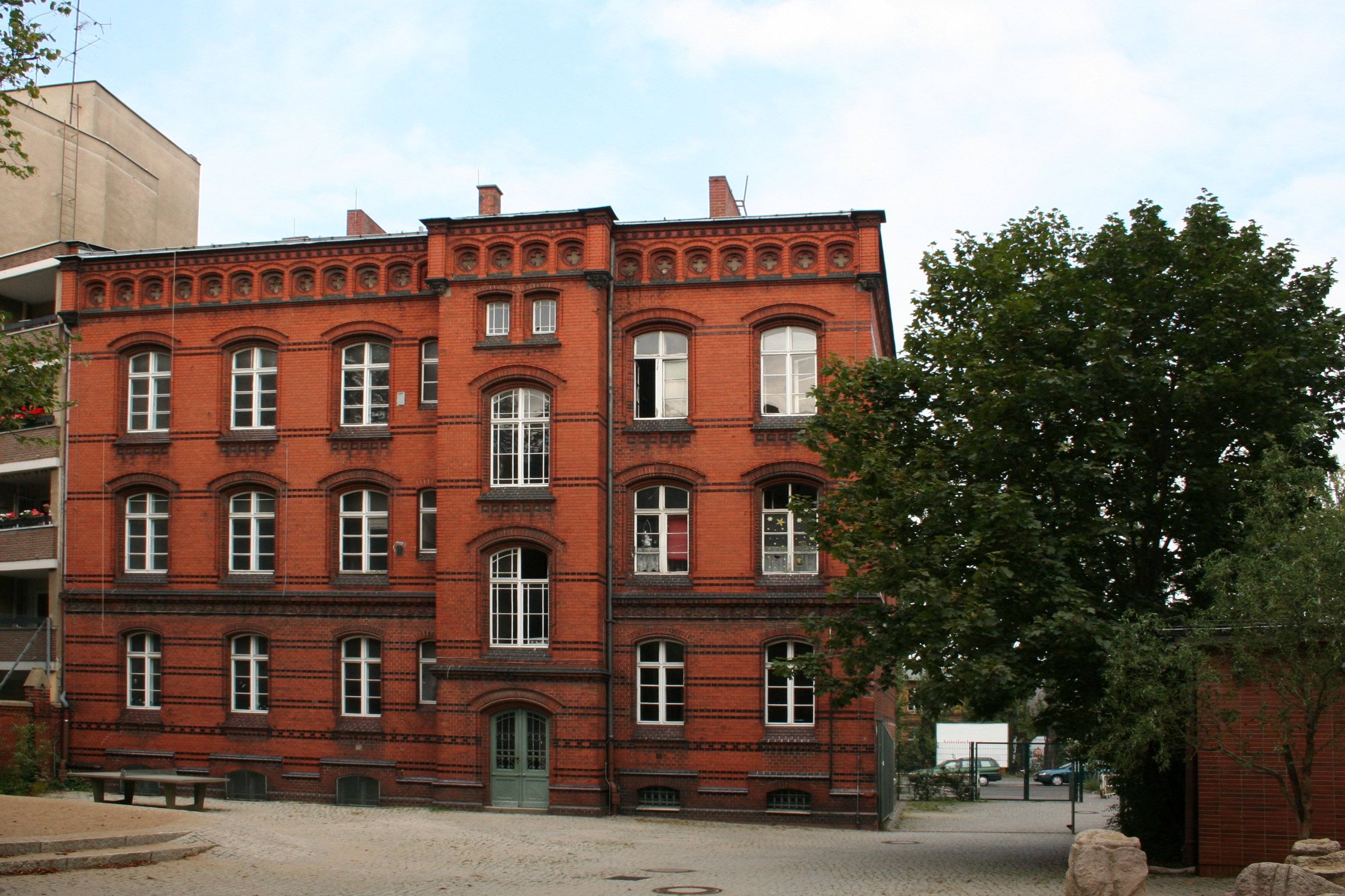 The former residential house of the teachers of James-Krüss primary school in Berlin, Moabit.